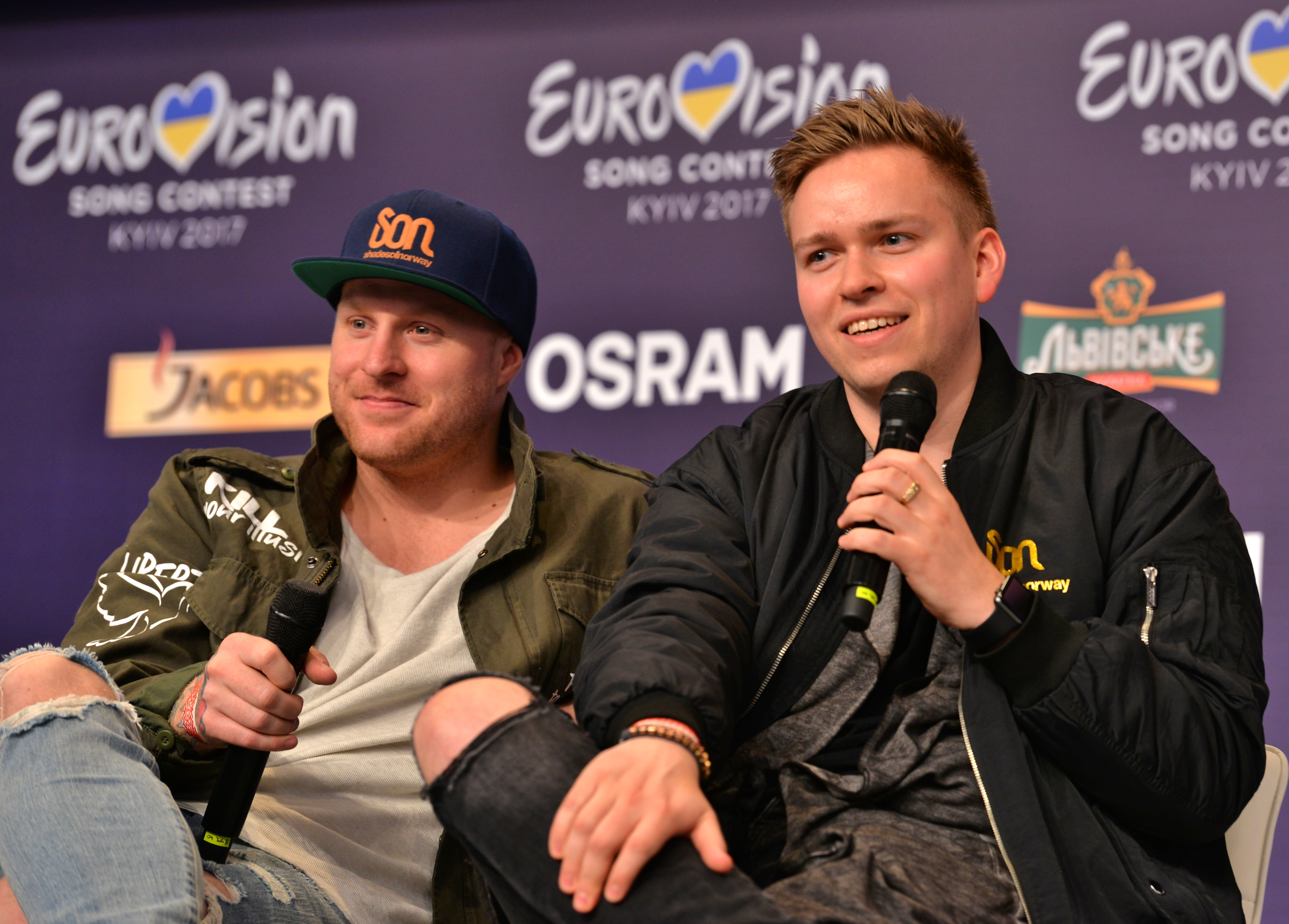 JOWST in Kyiv